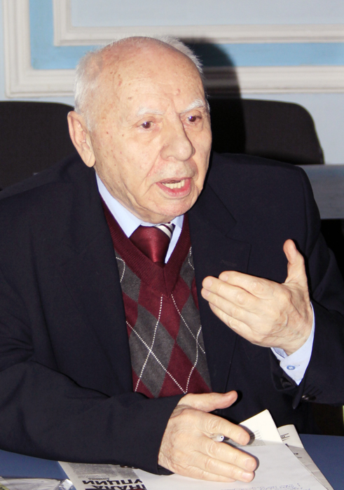 Soltan Dzarasov, co-head of SDPR in 1996-98